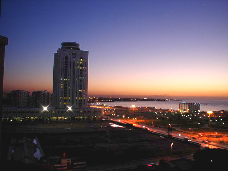 The Tripoli CBD skyline and bay by night, and the Al-Fateh tower with government offices of Saif al-Islam Muammar Al-Gaddafi.